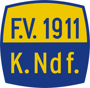 Logo of FV Neuendorf, German football team